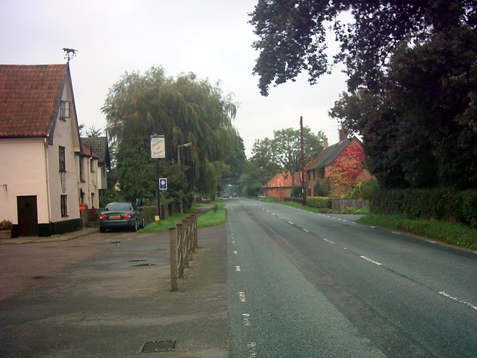 A144 Stone Street Near The Huntsman Public House